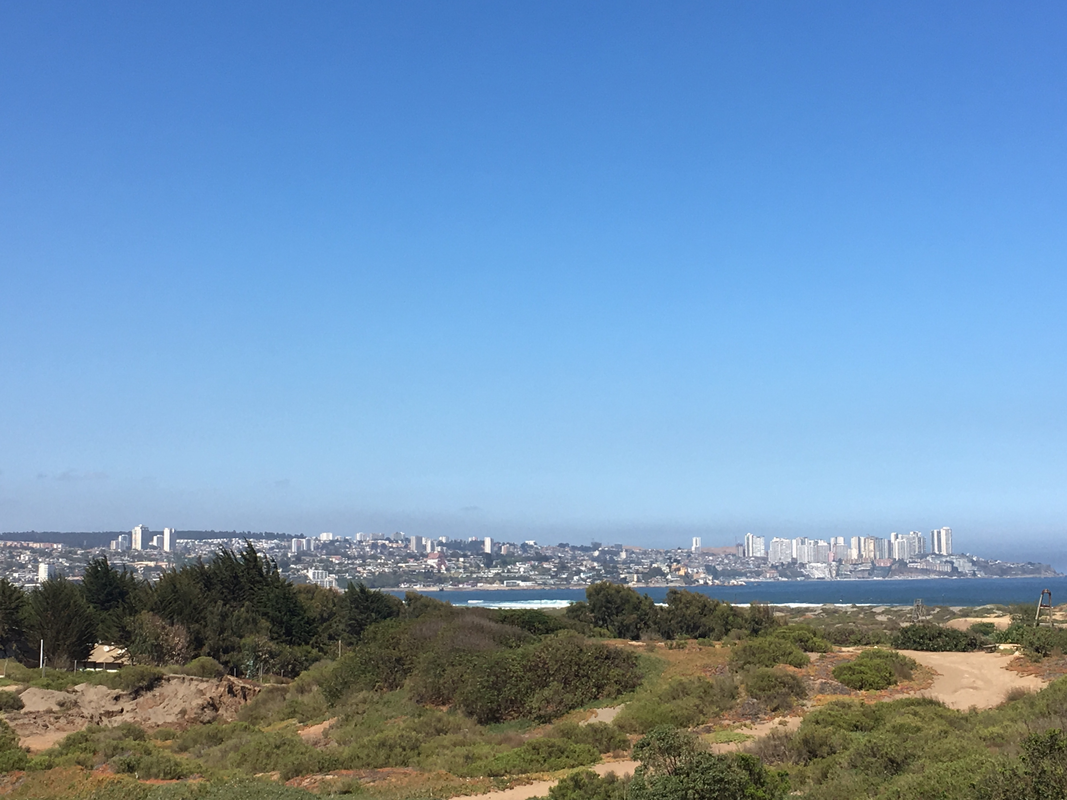 Taken at 11:11 October 10th, 2019 Concón Skyline